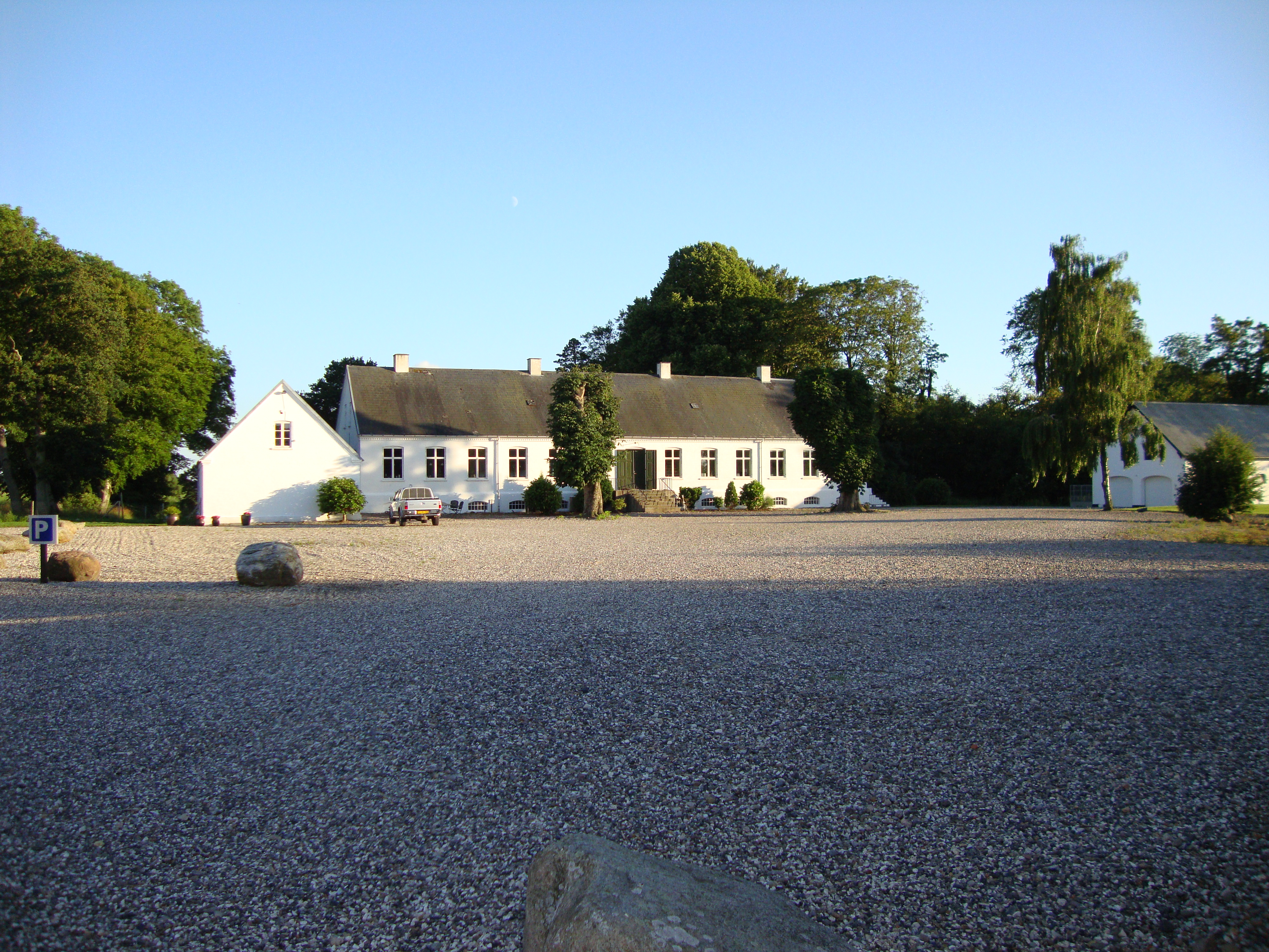 Ny Vraa is a farm that produce wood products, Tylstrup, Norjylland, Denmark